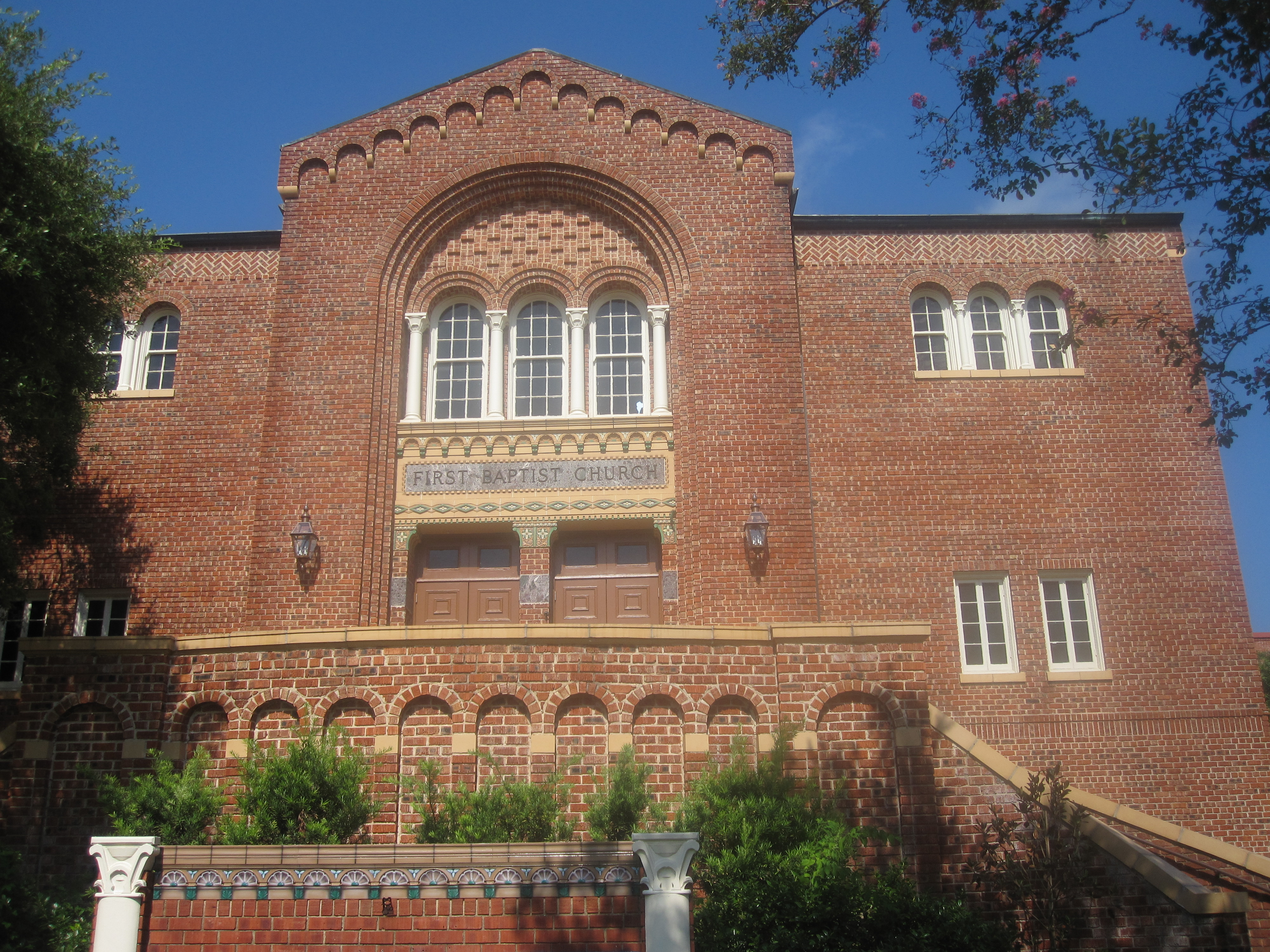 The First Baptist Church — in Natchitoches, Louisiana. A brick Romanesque Revival style church.